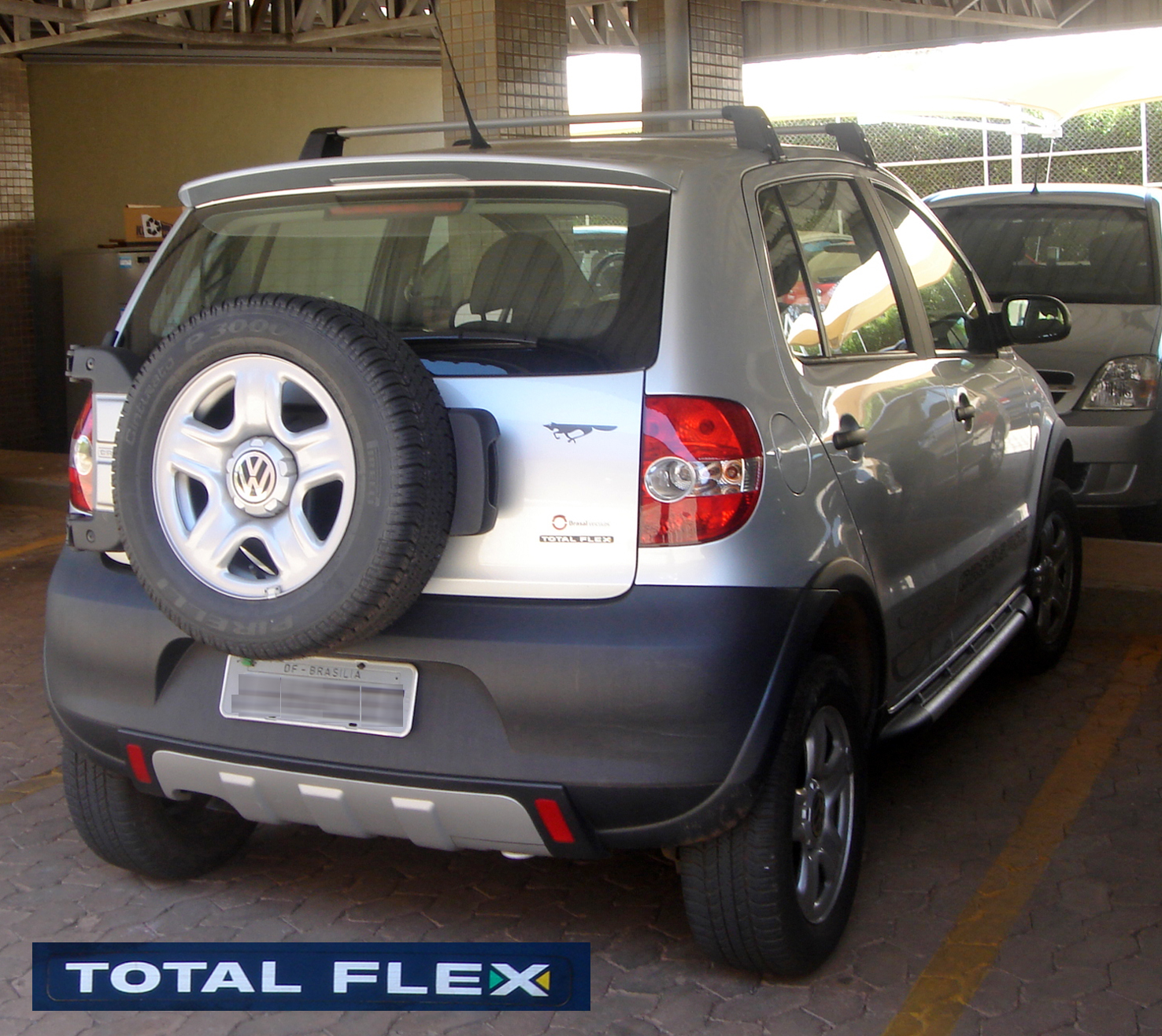 Brazilian flex-fuel version of VW CrossFox TotalFlex, shown rear view with TotalFlex version logo inserted with Photoshop